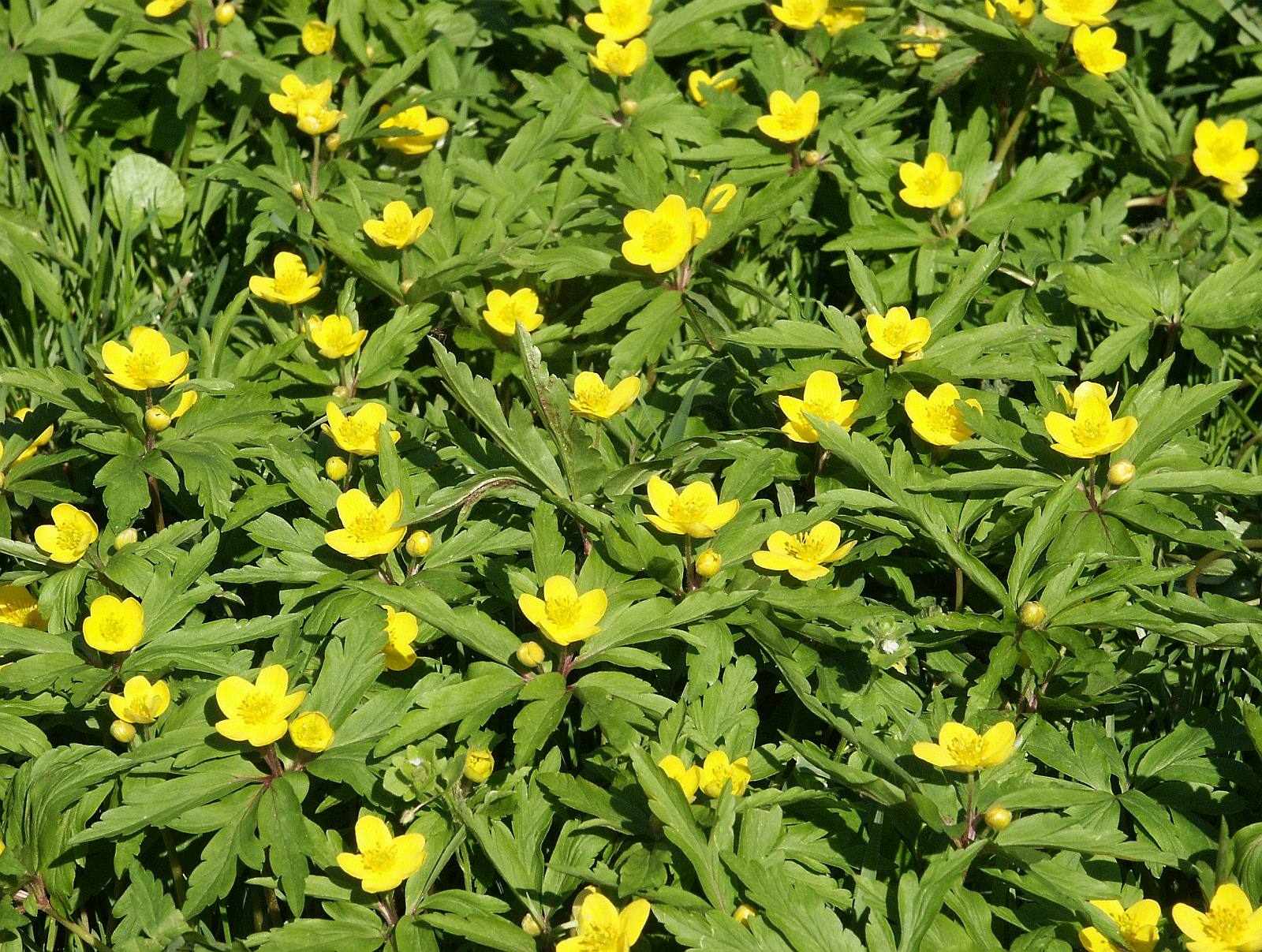 Anemone ranunculoides, northern Baden-Württemberg, Germany